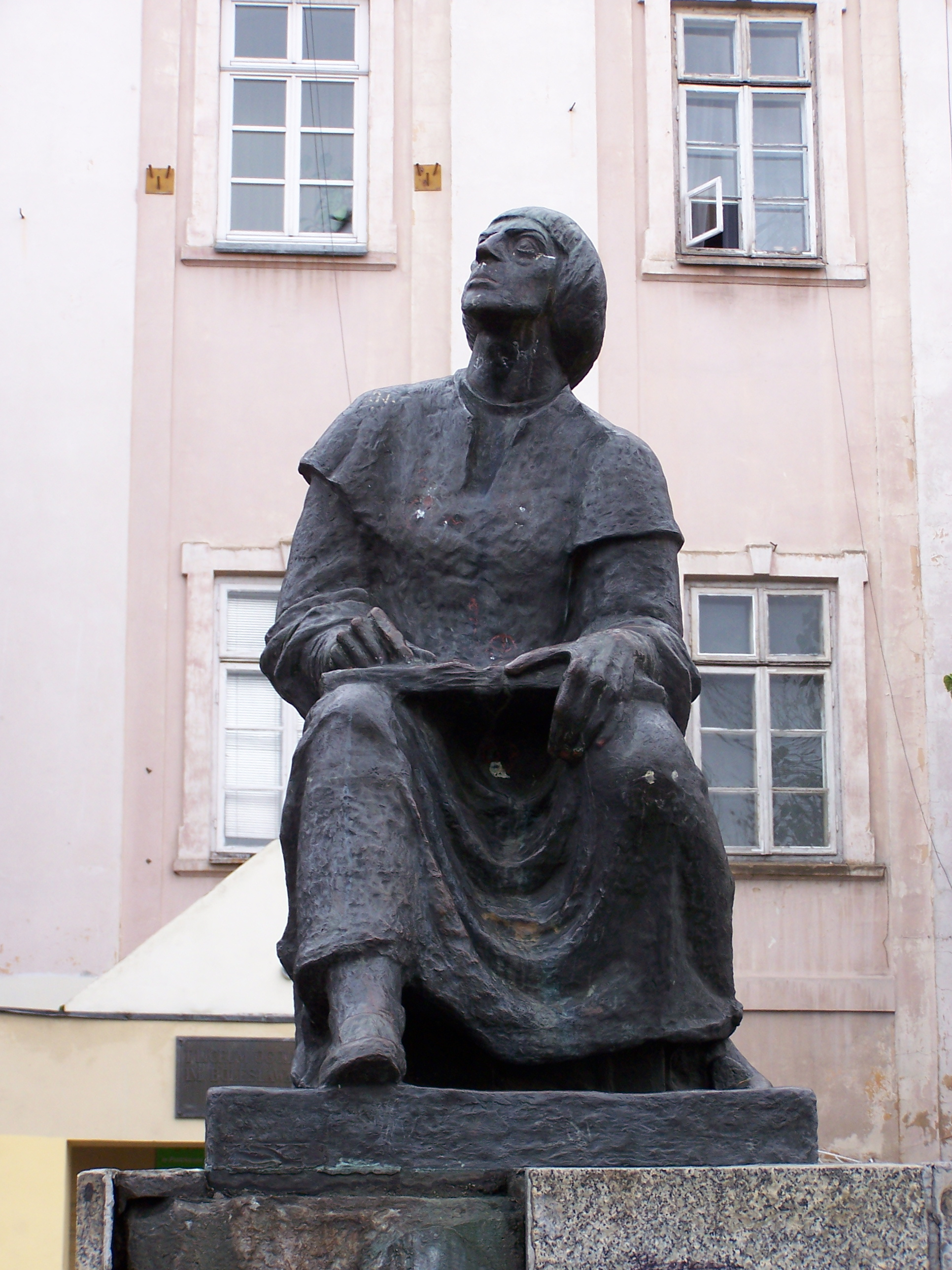 Statue of Mikołaj Kopernik in Piotrków Trybunalski (Poland)